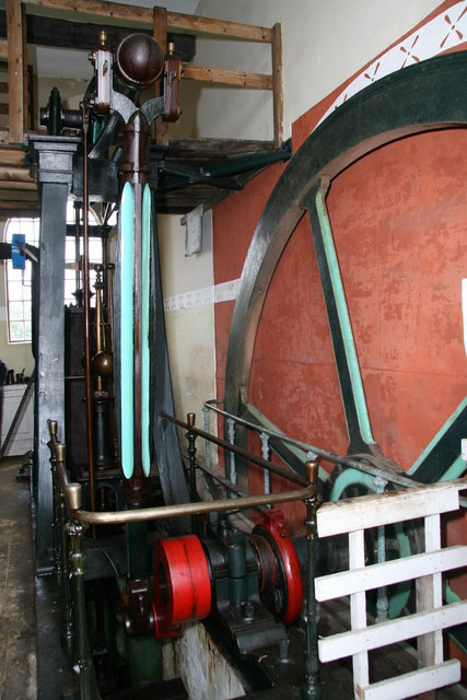 Dogdyke beam engine 1855 beam engine by Bradley & Craven, Wakefield driving a 24' diameter scoopwheel.